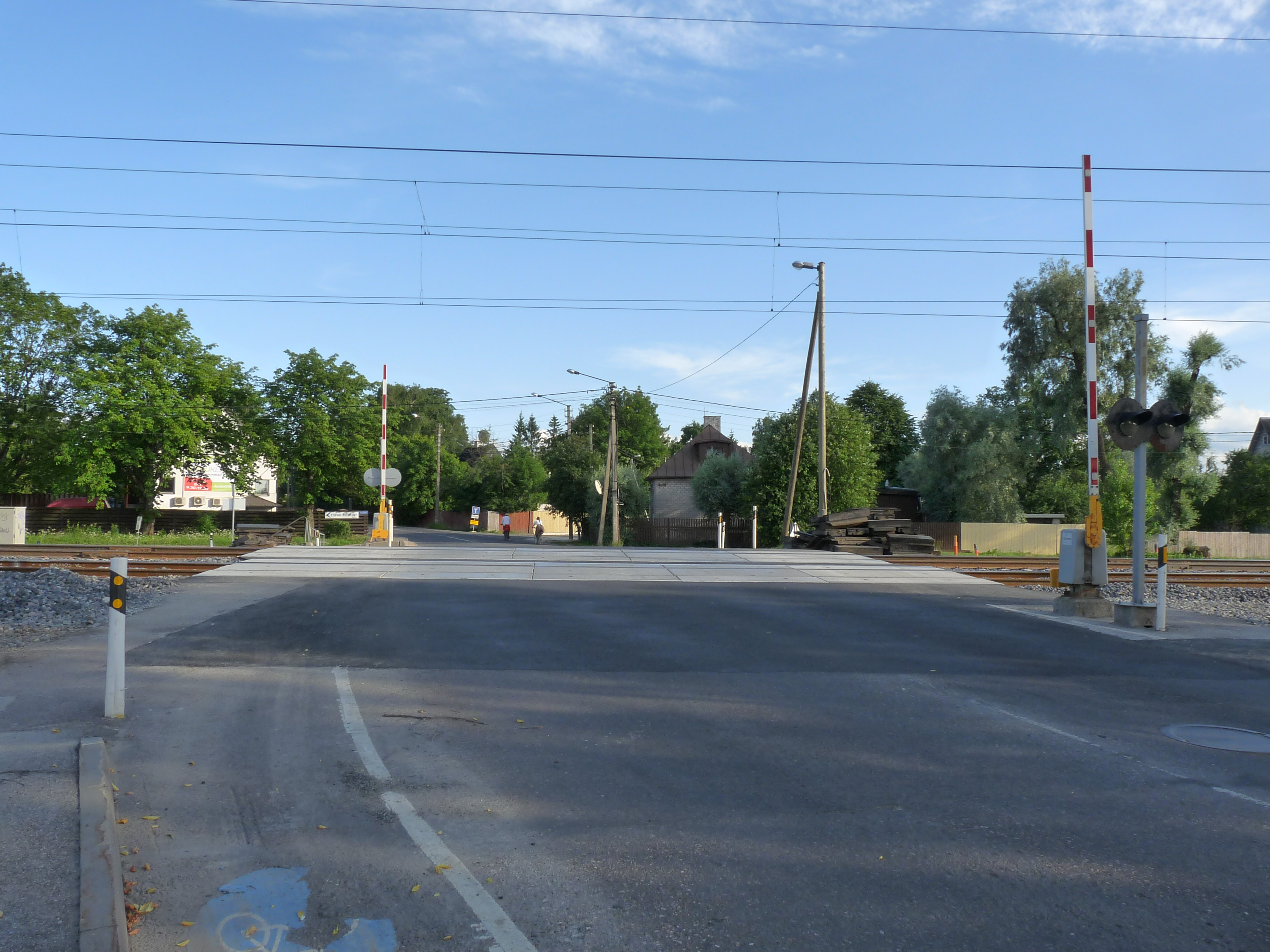 Level crossing on Veerenni street in Tallinn, Estonia.